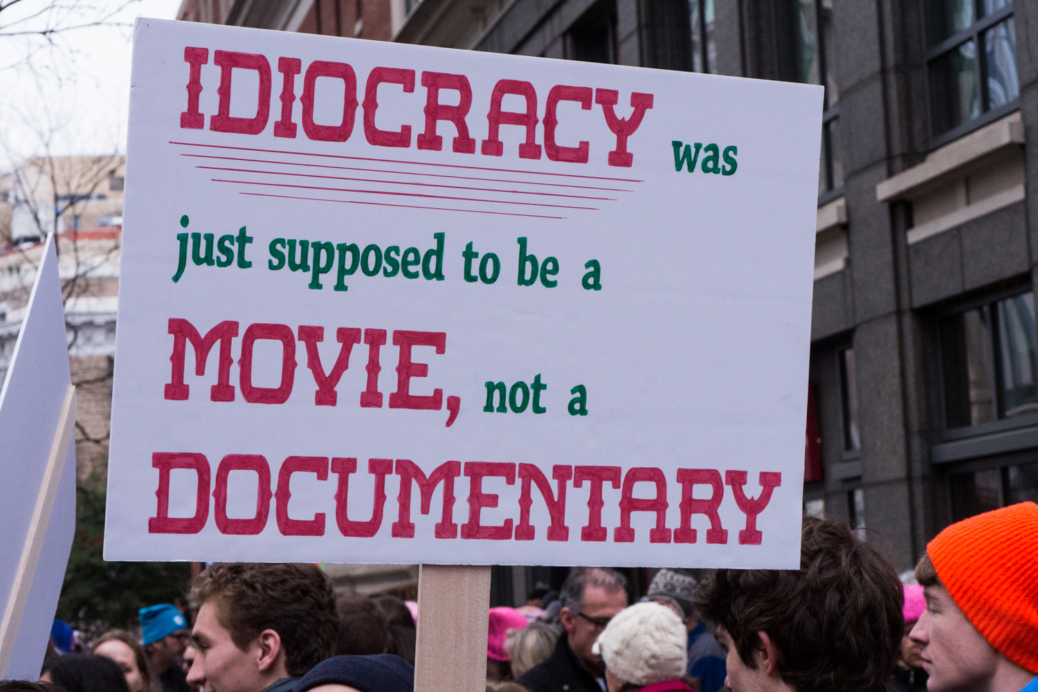 Trump-WomensMarch_2017-1060585